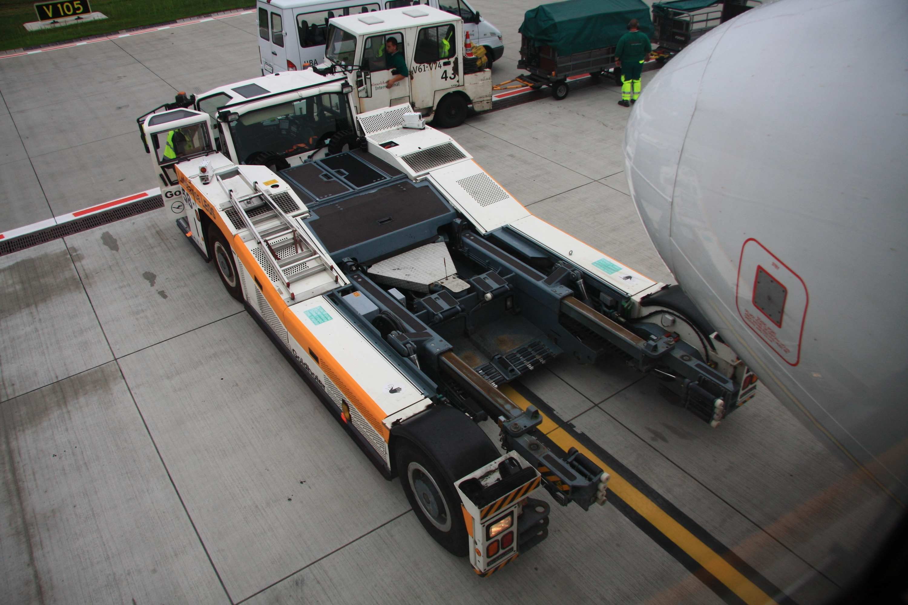 A Goldhofer Pushback tractor at the Düsseldorf International Airport